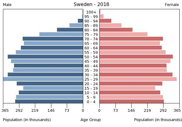 The population pyramid of Sweden illustrates the age and sex structure of population and may provide insights about political and social stability, as well as economic development. The population is distributed along the horizontal axis, with males shown on the left and females on the right. The male and female populations are broken down into 5-year age groups represented as horizontal bars along the vertical axis, with the youngest age groups at the bottom and the oldest at the top. The shape of the population pyramid gradually evolves over time based on fertility, mortality, and international migration trends.